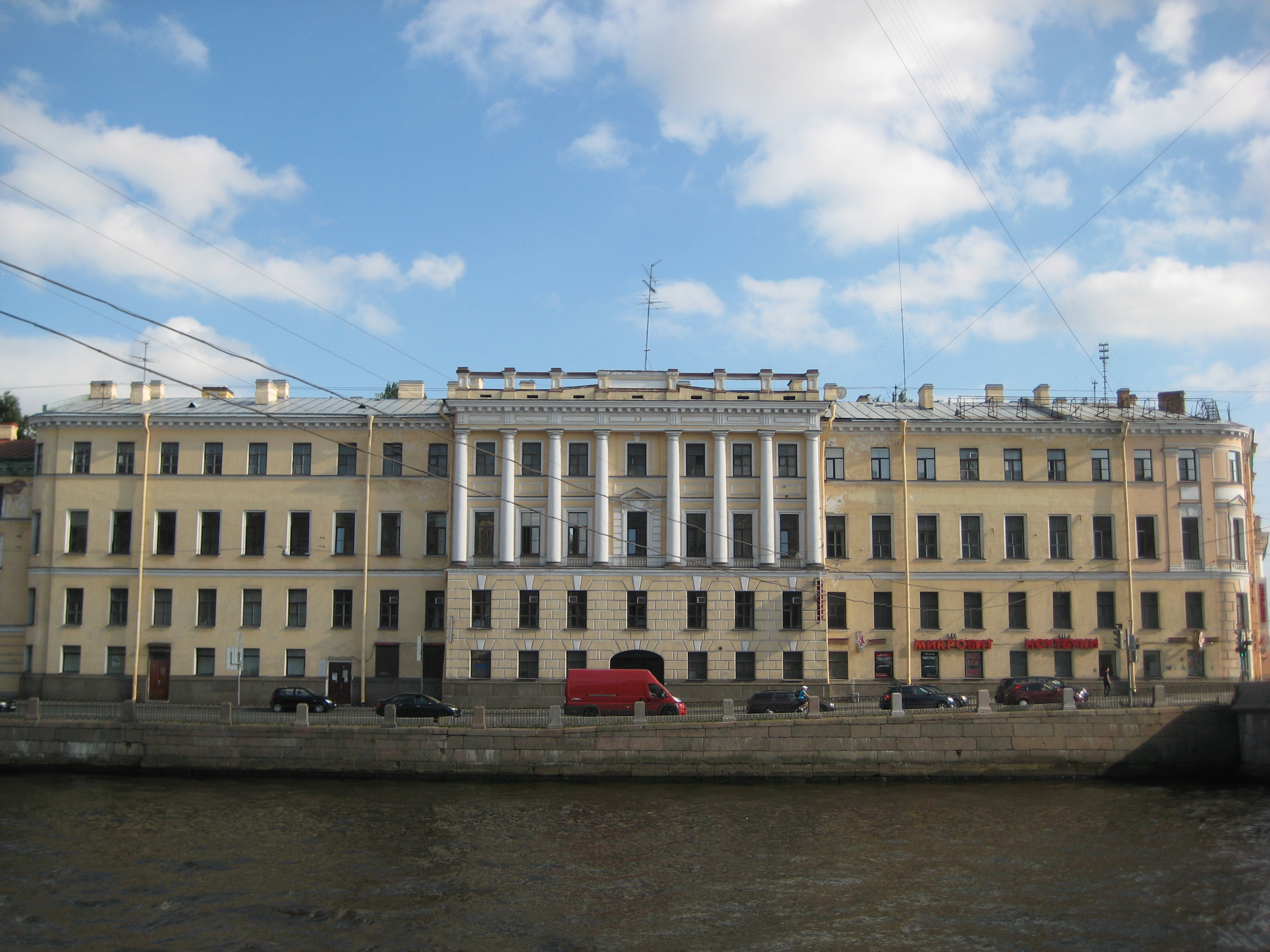 The complex of buildings of the barracks of the Life Guards Izmailovsky Regiment. Officer corps (House of M.A. Garnovsky) (architect Luigi Rusca, I.I. Charlemagne), 1800s; 1820: Izmailovsky Avenue, 2 / Fontanka Embankment, 120. Admiralteysky District, St. Petersburg.